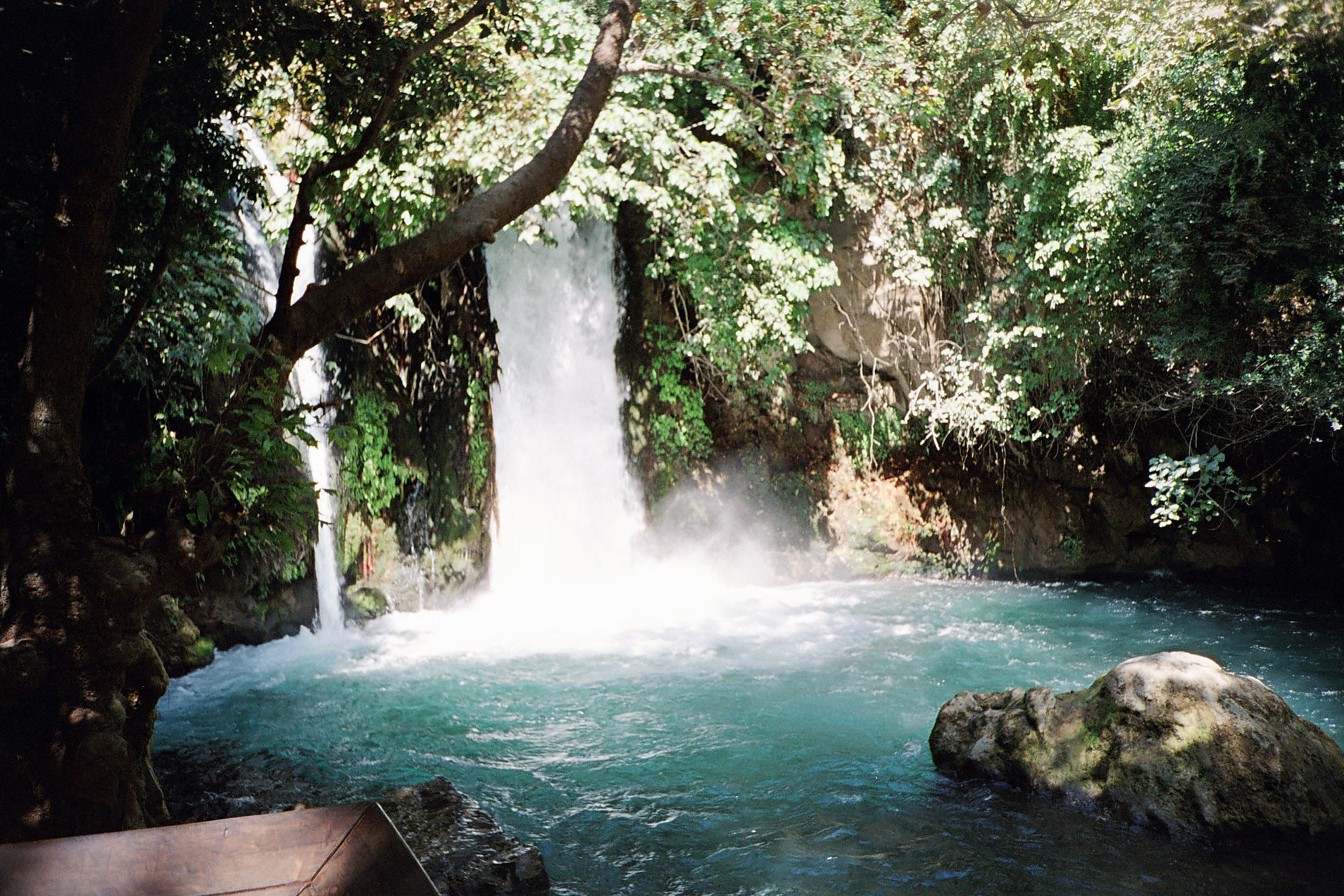 The Banias Waterfall in the Golan Heights. Author: Nahum Dam (2004)